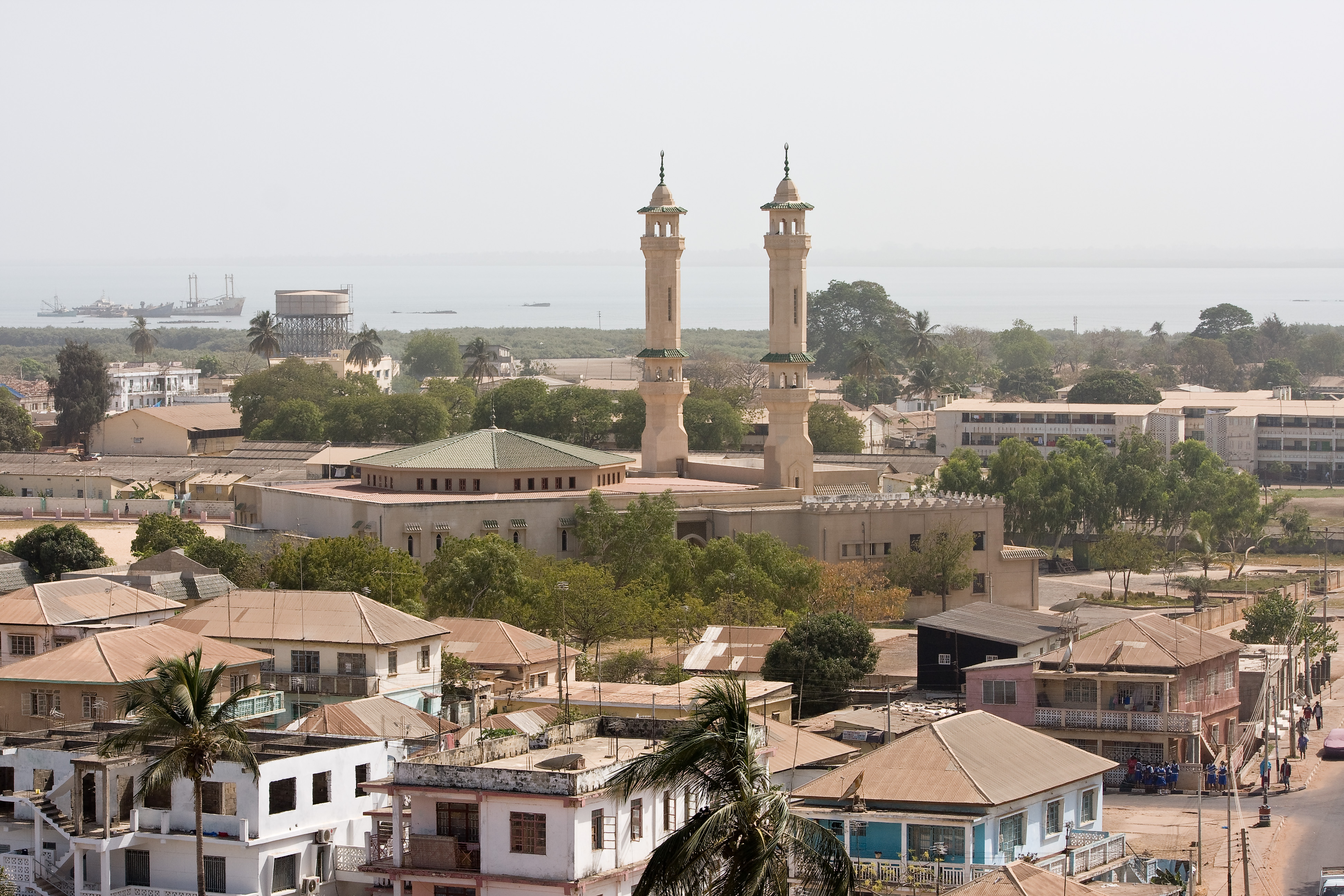 The great mosque or king Fahad mosque in Banjul/The Gambia